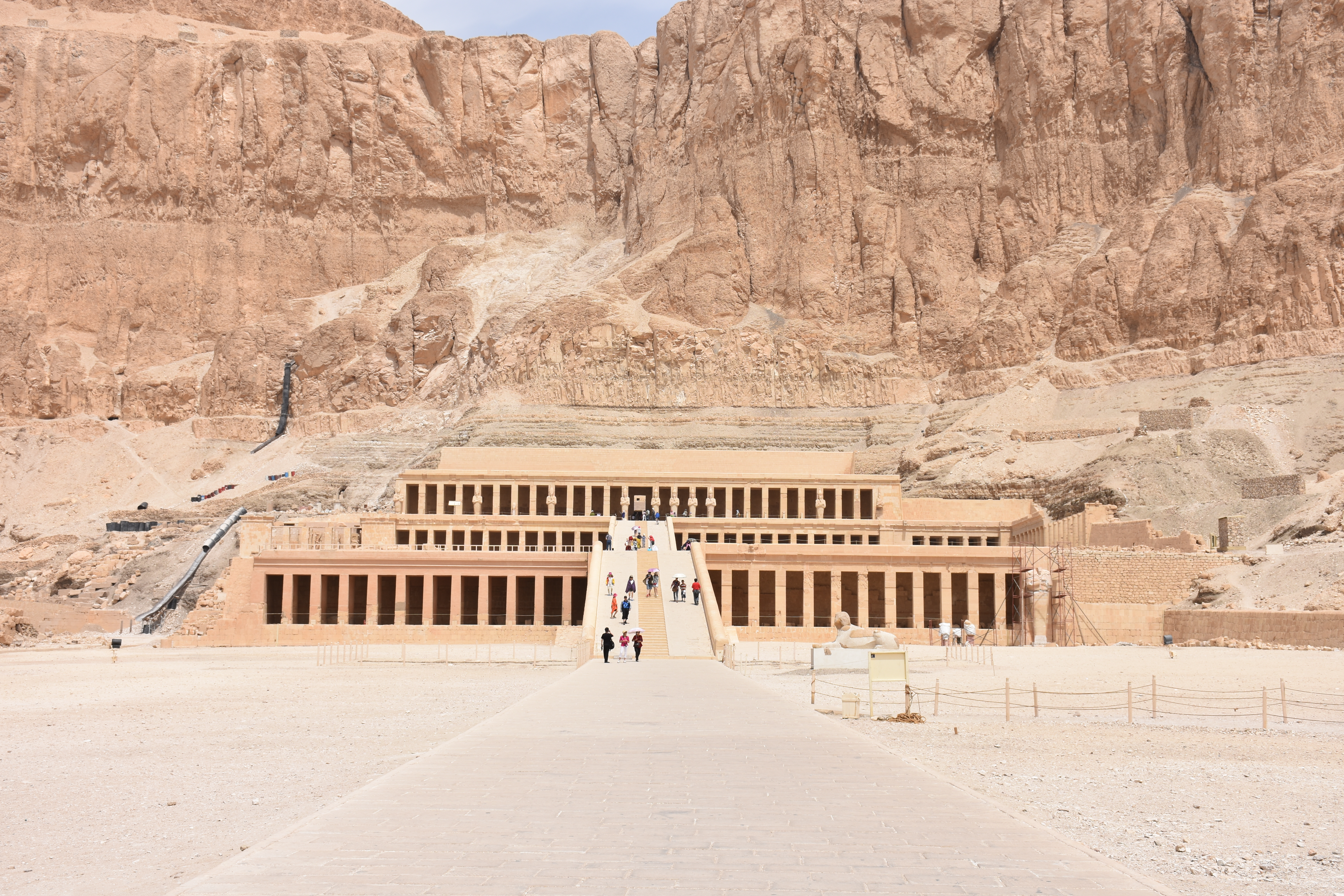 The Mortuary Temple of Hatshepsut in Luxor in 2015